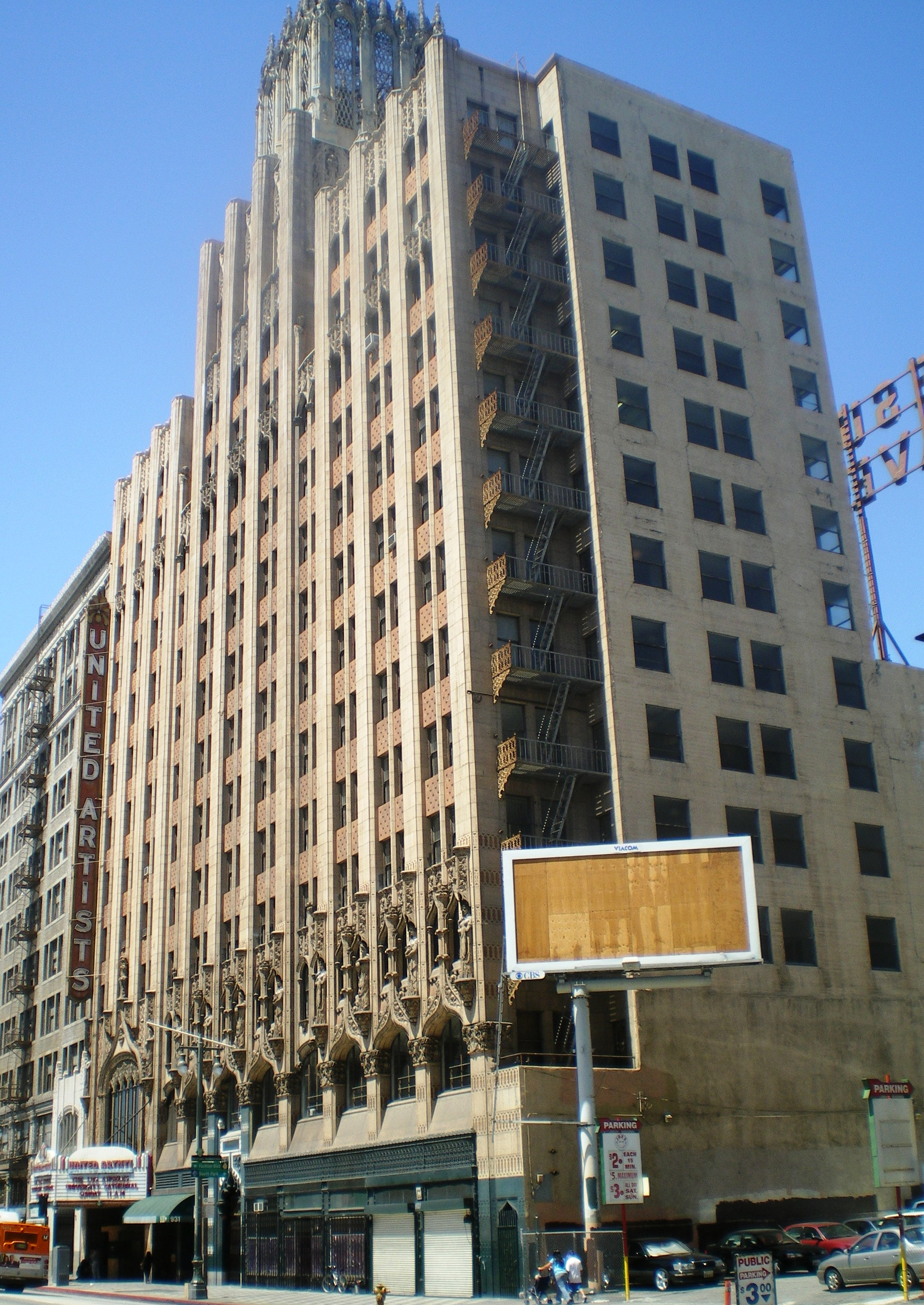 United Artists Theater — 933 S. Broadway, Los Angeles, California. Present day Ace Hotel Los Angeles (opened 2014).